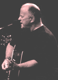 Christy Moore, Liverpool, October 2008